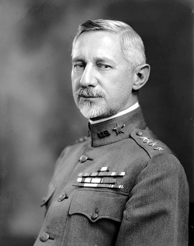 Peyton Conway March (born December 27, 1864 in Easton, Pennsylvania – April 13, 1955) was an American soldier and Army Chief of Staff.